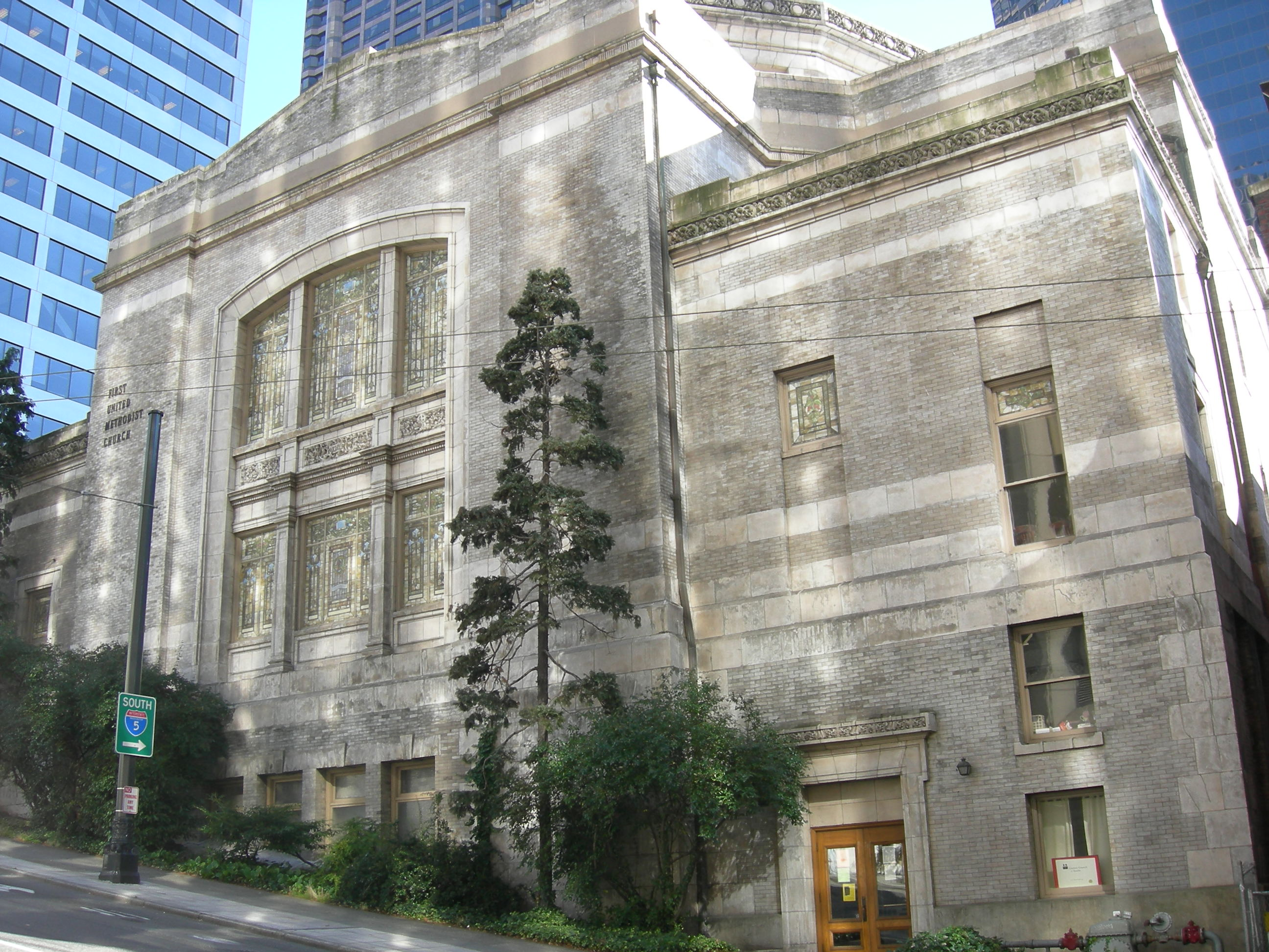 First United Methodist Church, Seattle, Washington. Exterior, seen looking southeast across Marion Street.